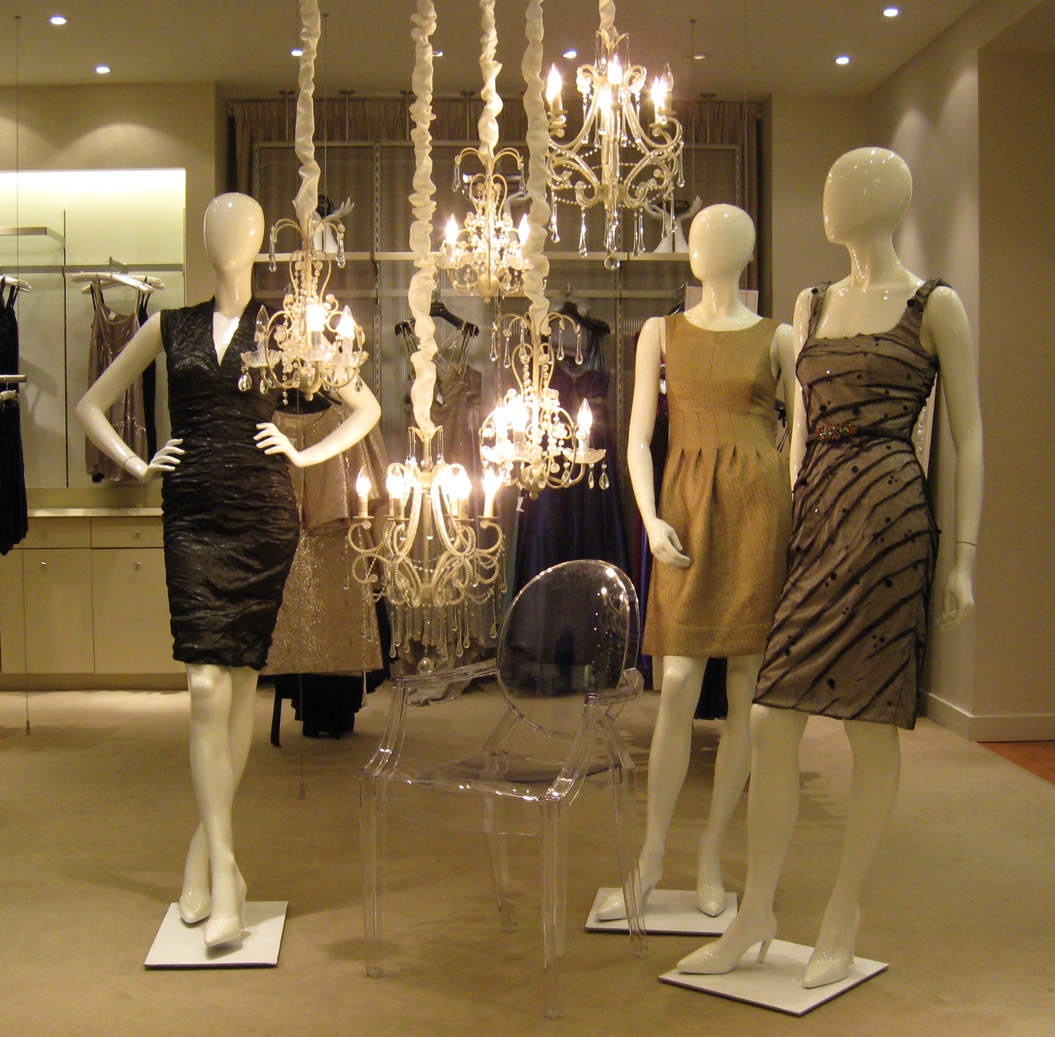 Mannequins at the Holt Renfrew store in Montreal, CanadaHolt Renfrew